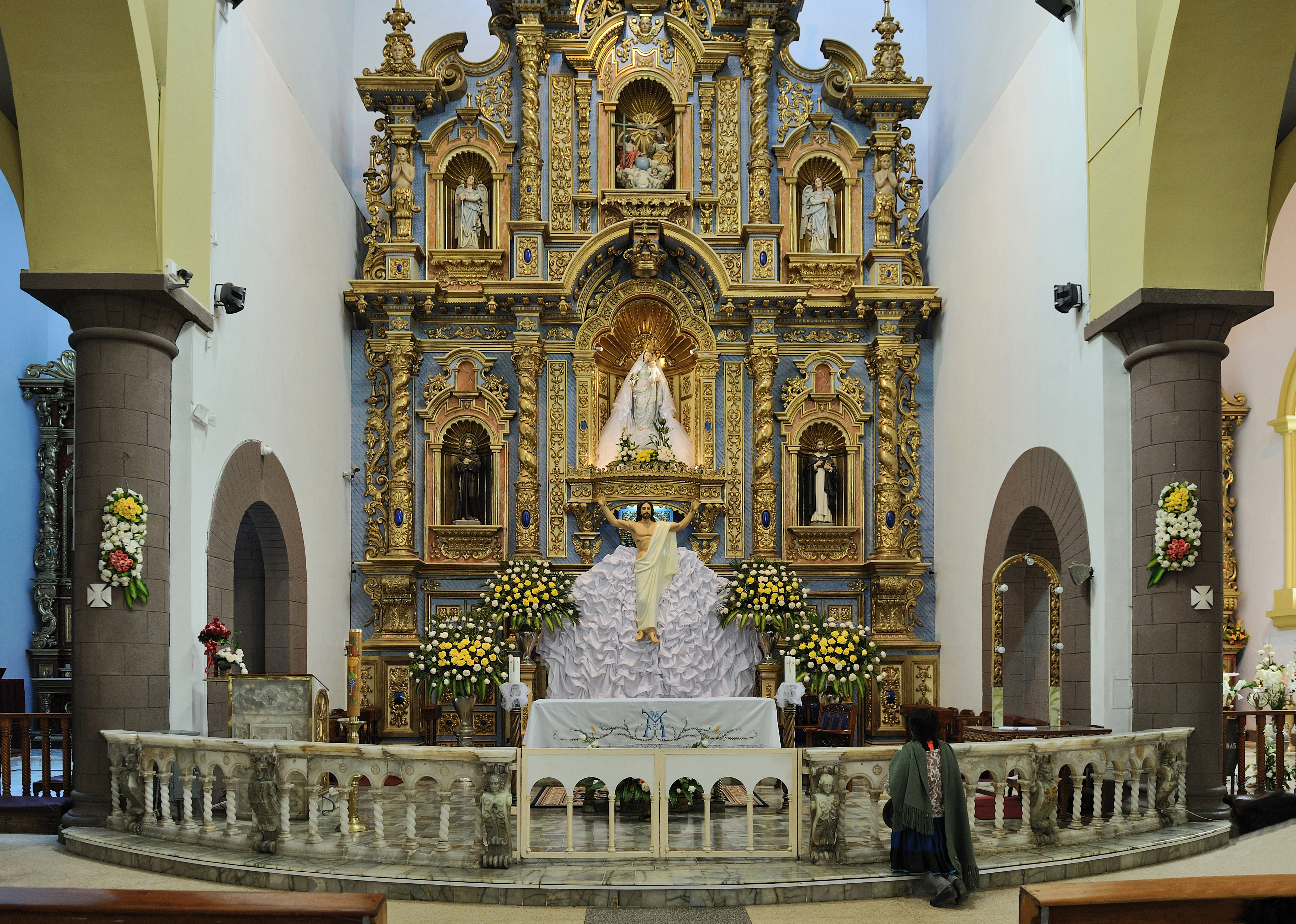 Azogues, Ecuador: the main altar of San Francisco Church. In the central area of the altar: the statue of the Virgen de la Nube (Mary of the Clouds). Annual pilmgrimage site.